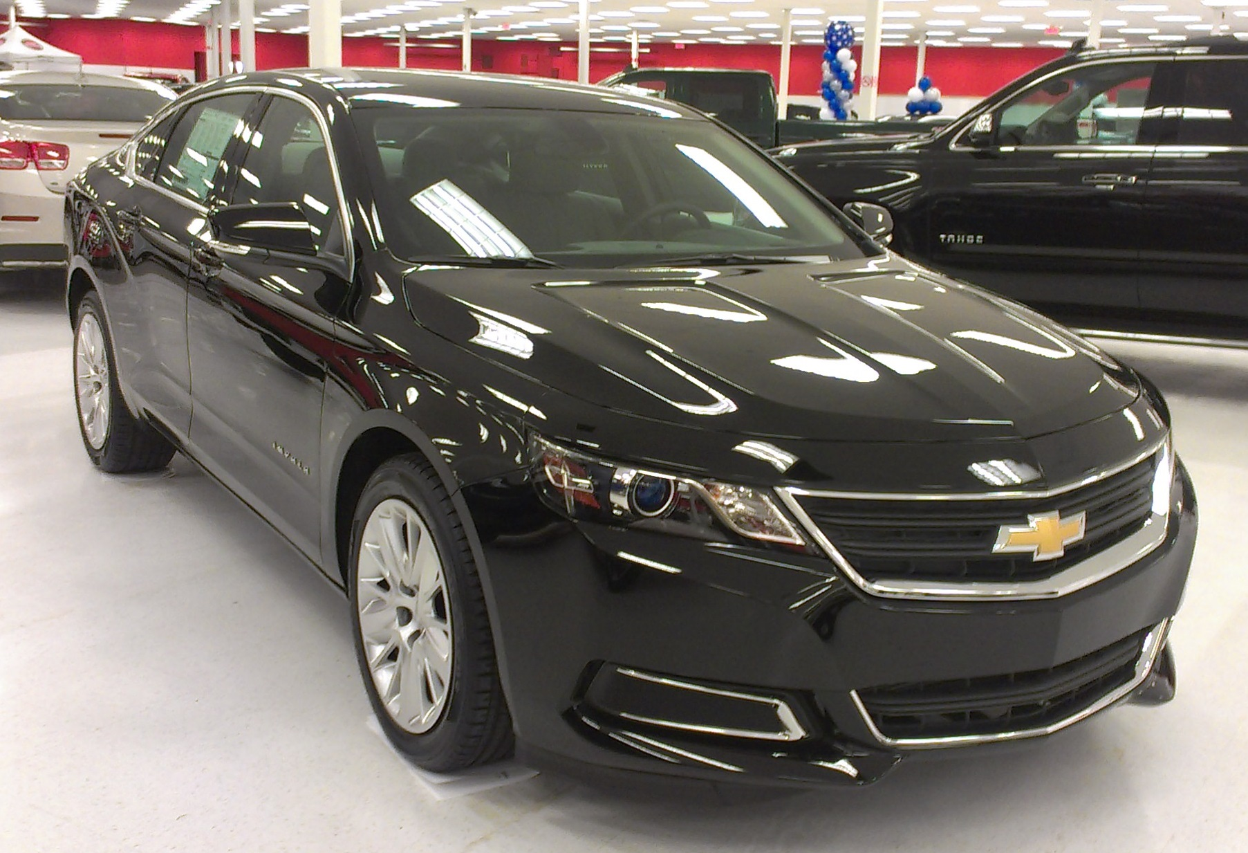 2016 Chevrolet Impala photographed in Montreal, Quebec, Canada inside the former Carrefour Angrignon location of Target/Zellers.